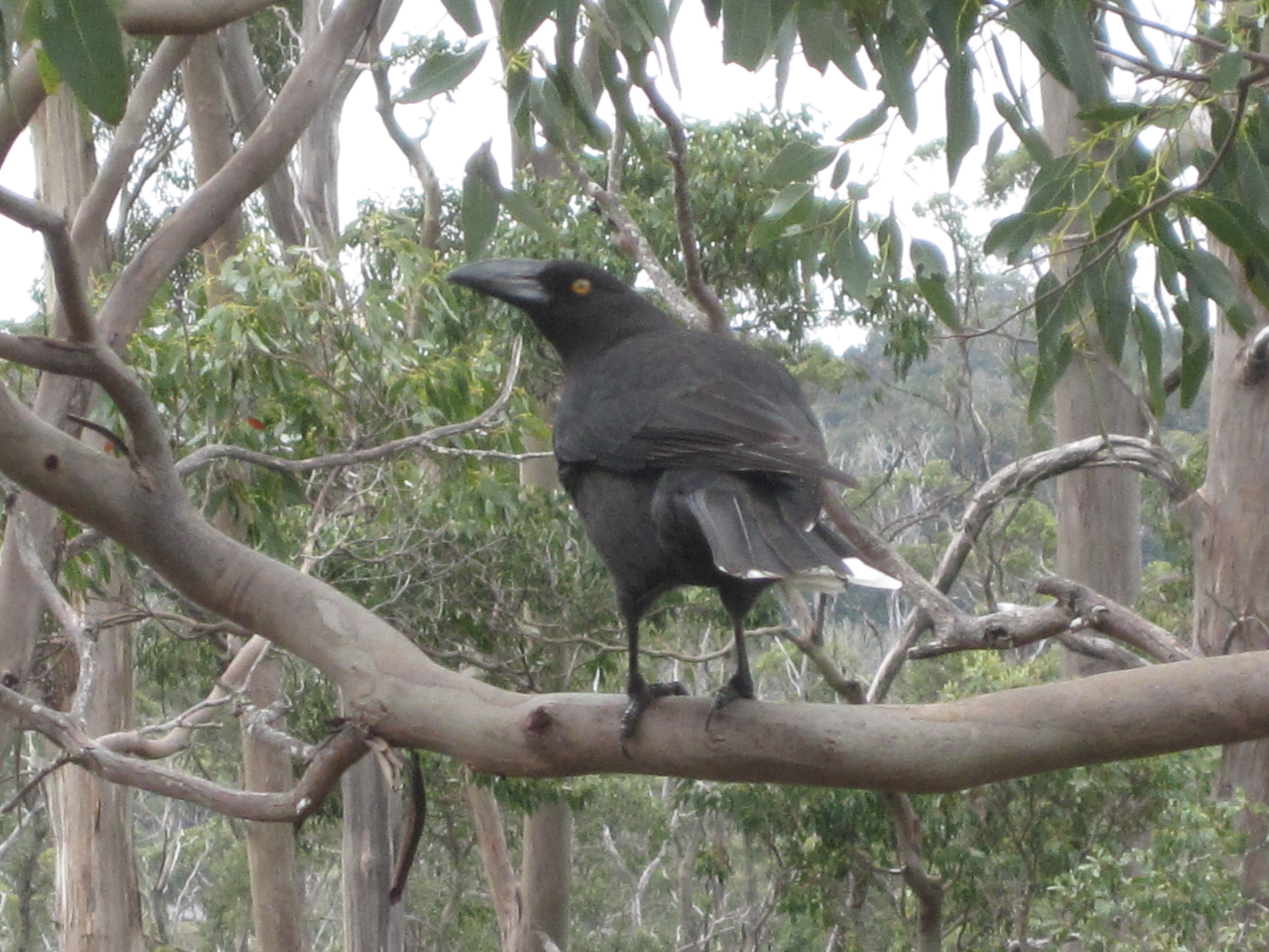 A Black Currawong (Strepera fuliginosa) in Cradle Mountain-Lake St Clair National Park, Central Highlands, Tasmania